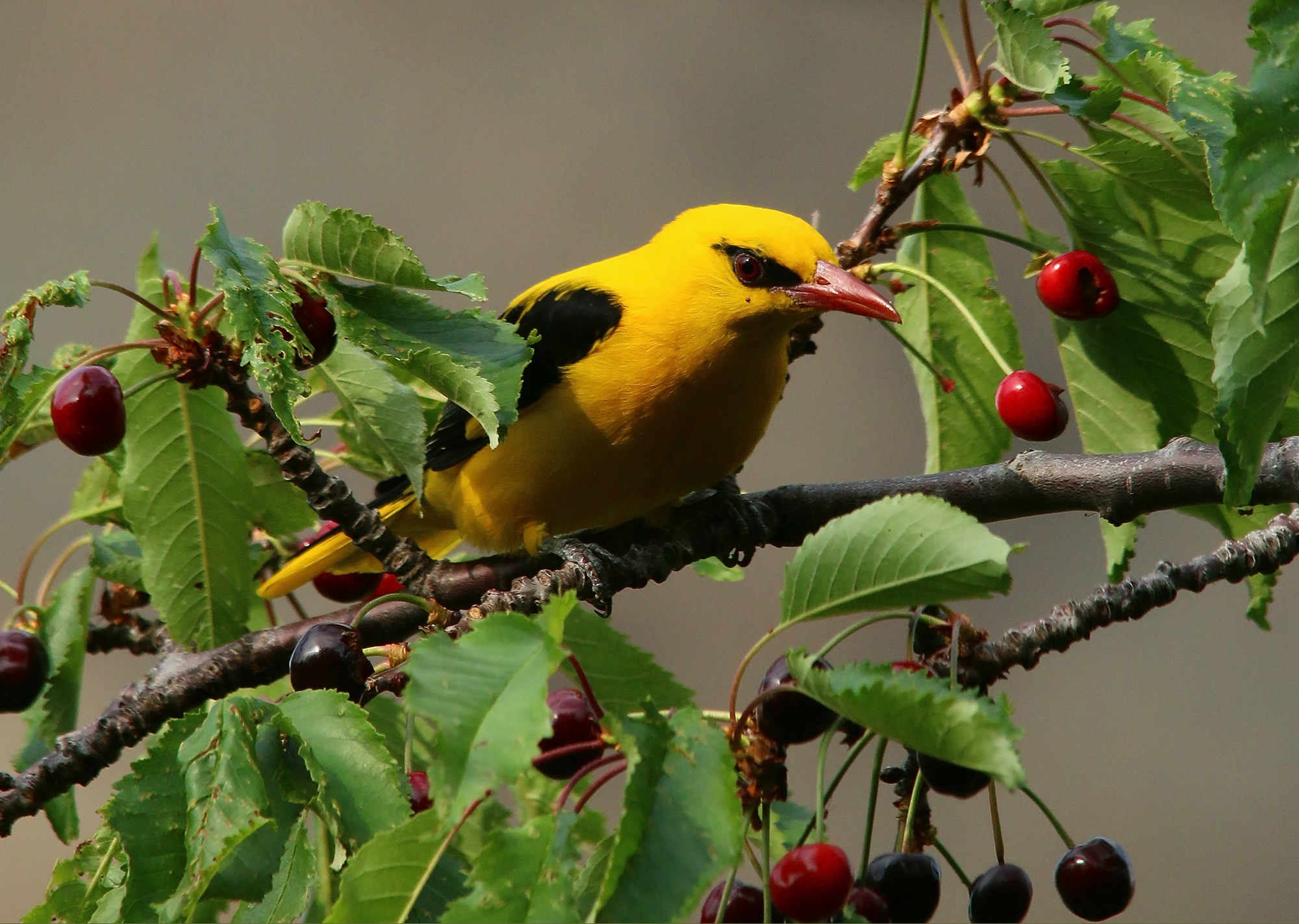 Golden Oriole (Oriolus oriolus) captured at Jutial, Gilgit, Gilgit-Baltistan, Pakistan with Canon EOS 70D